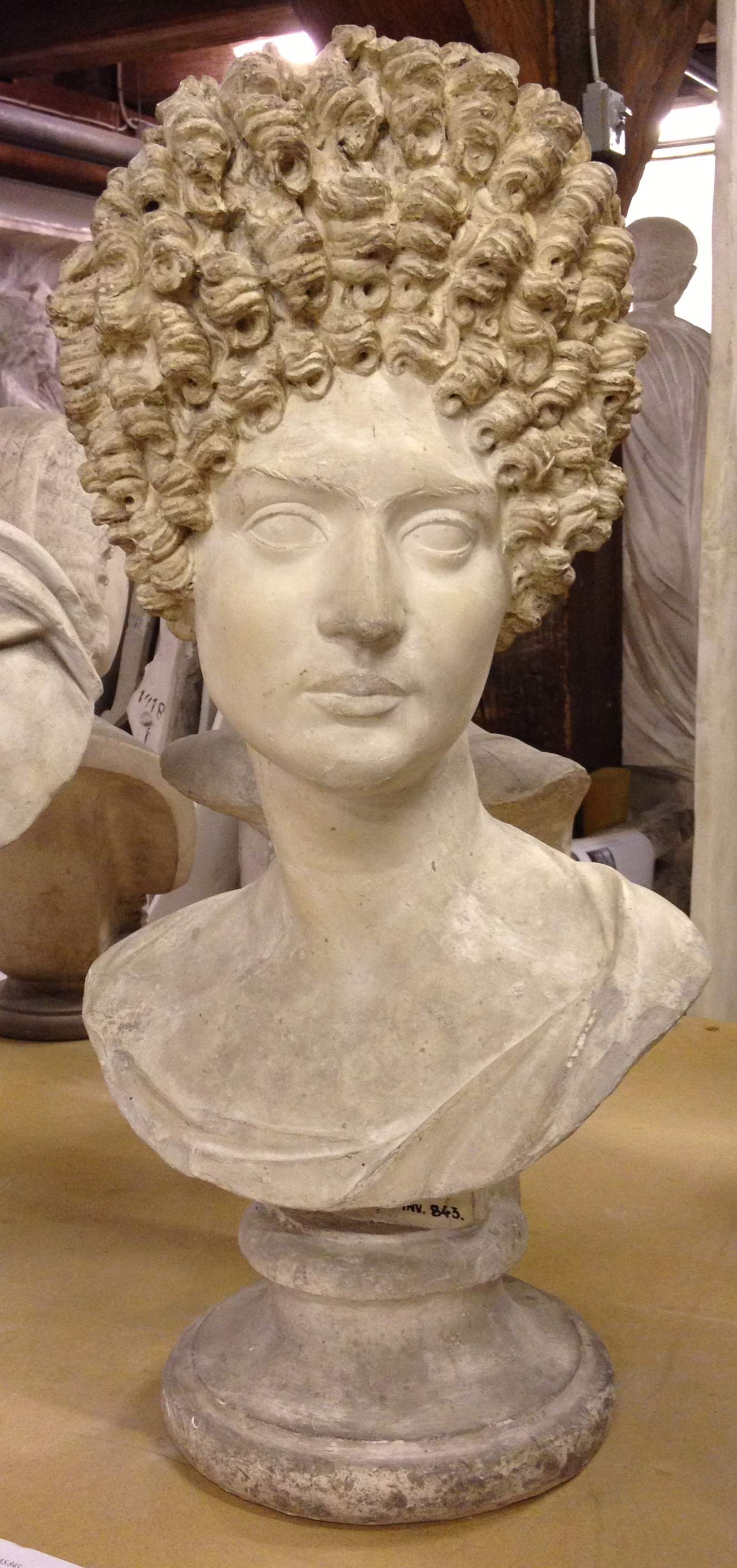 KAS 843 Portrait of a Roman woman (Vibia Matidia?) Roman, Flavian period Rome, Musei Capitolini View from front Exhibit af Roman divas and their hair at the Royal Cast Collection, Copenhagen, Denmark Udstilling af romerske divaer og deres hår på Den Kongelige Afstøbningssamling, København, Danmark